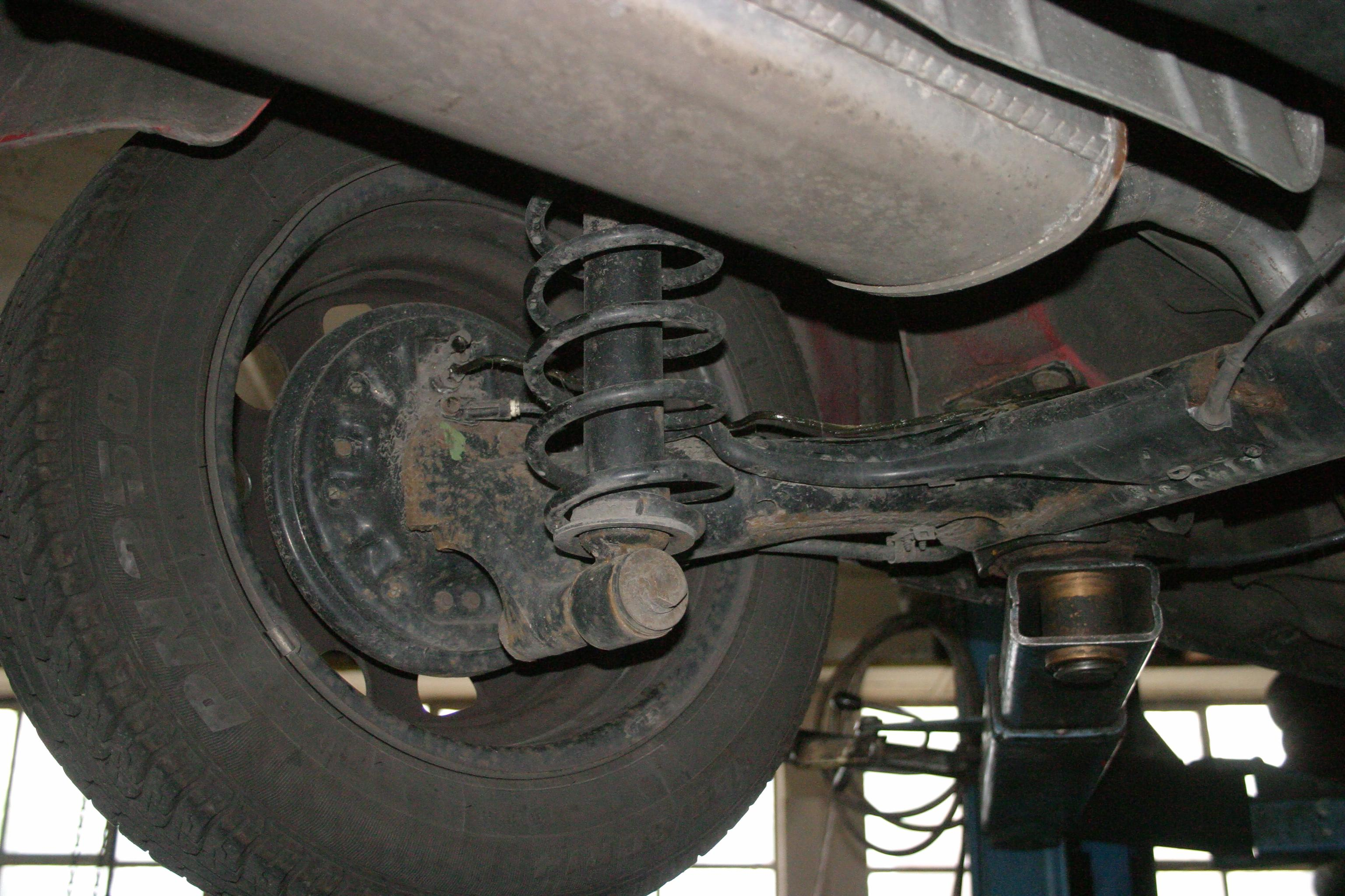 Torsion beam rear suspension - left rear wheel - VW Golf Mk 3 Estate Joker edition